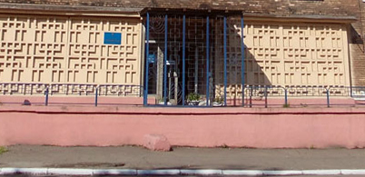 Alchevsk Historical Museum